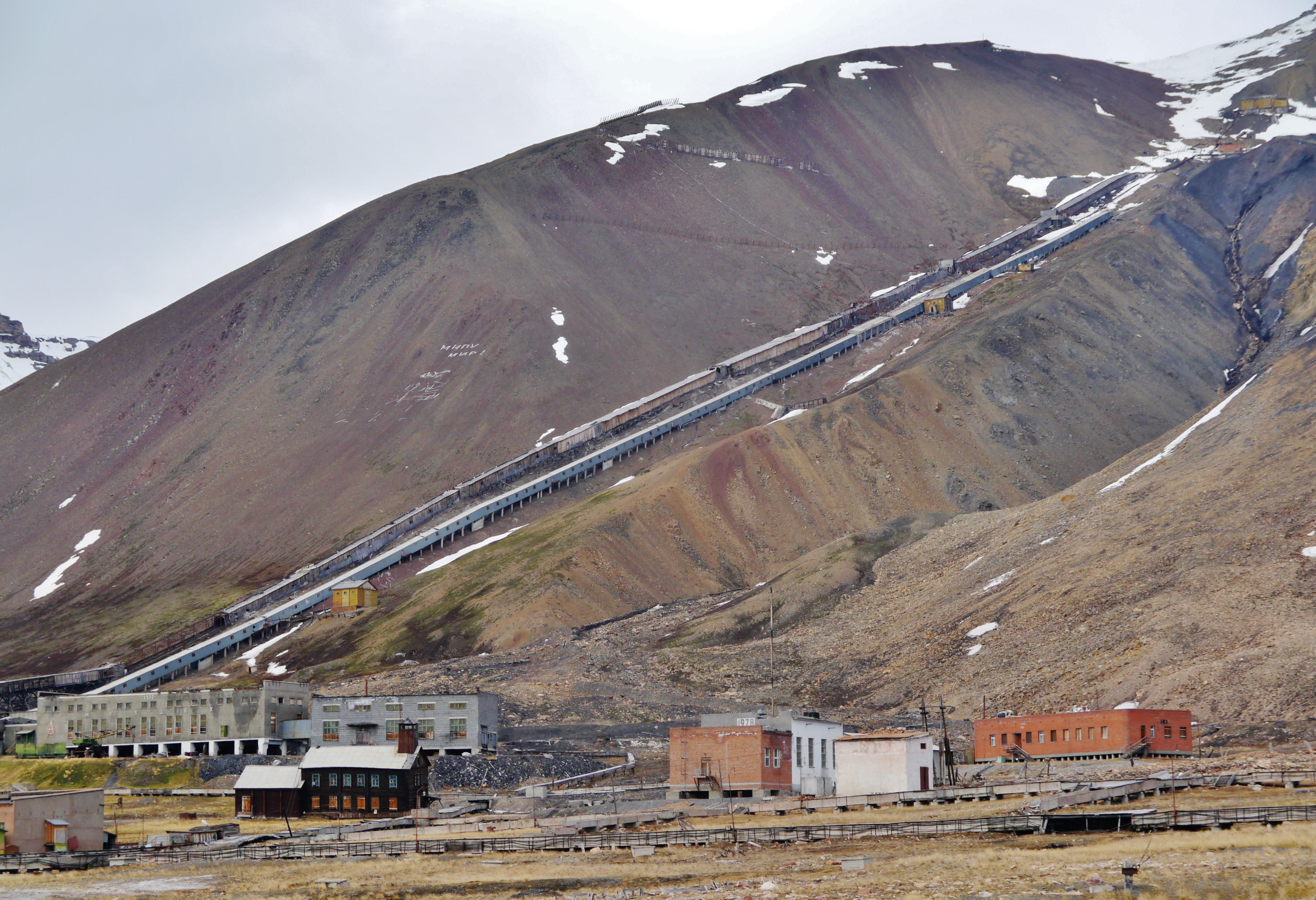 Mine in Pyramiden, Spitsbergen, Norway